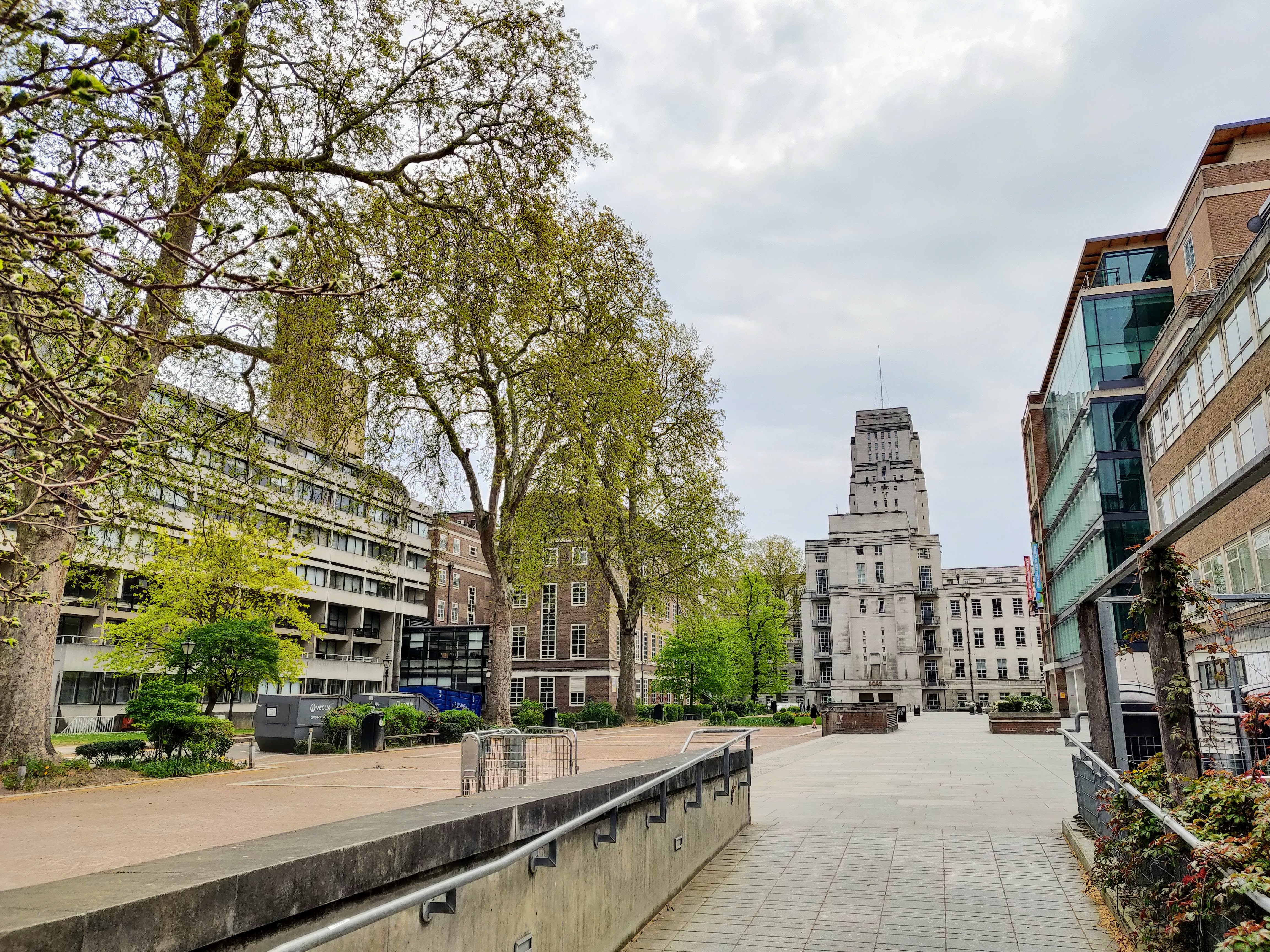 Torrington Square forms the heart of the University of London. Senate House, the central administrative building, lies straight ahead, with Birkbeck College on either side, SOAS on the far left, and UCL looking the other way.